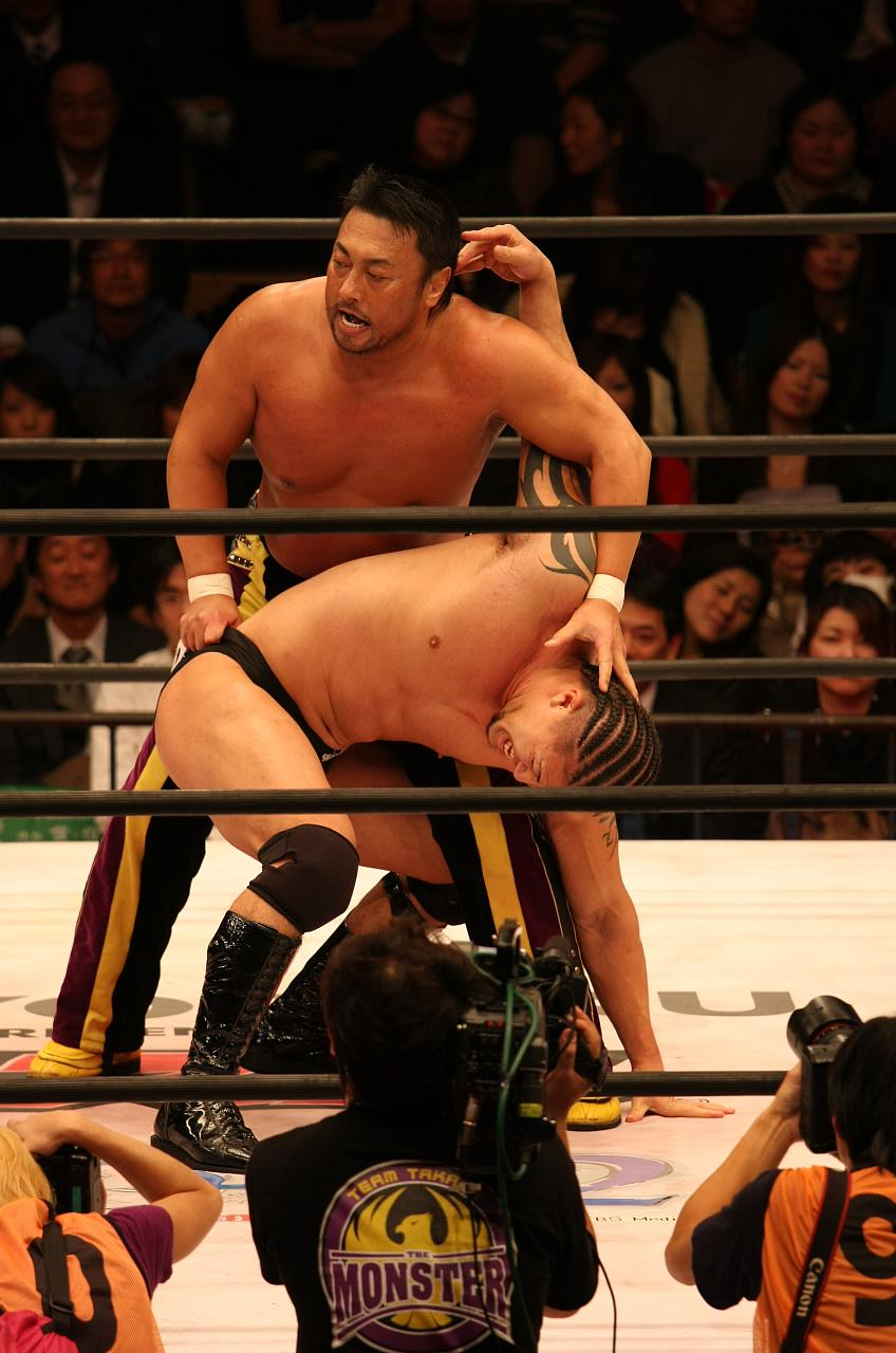 Toshiaki Kawada with an abdominal stretch on Zeus